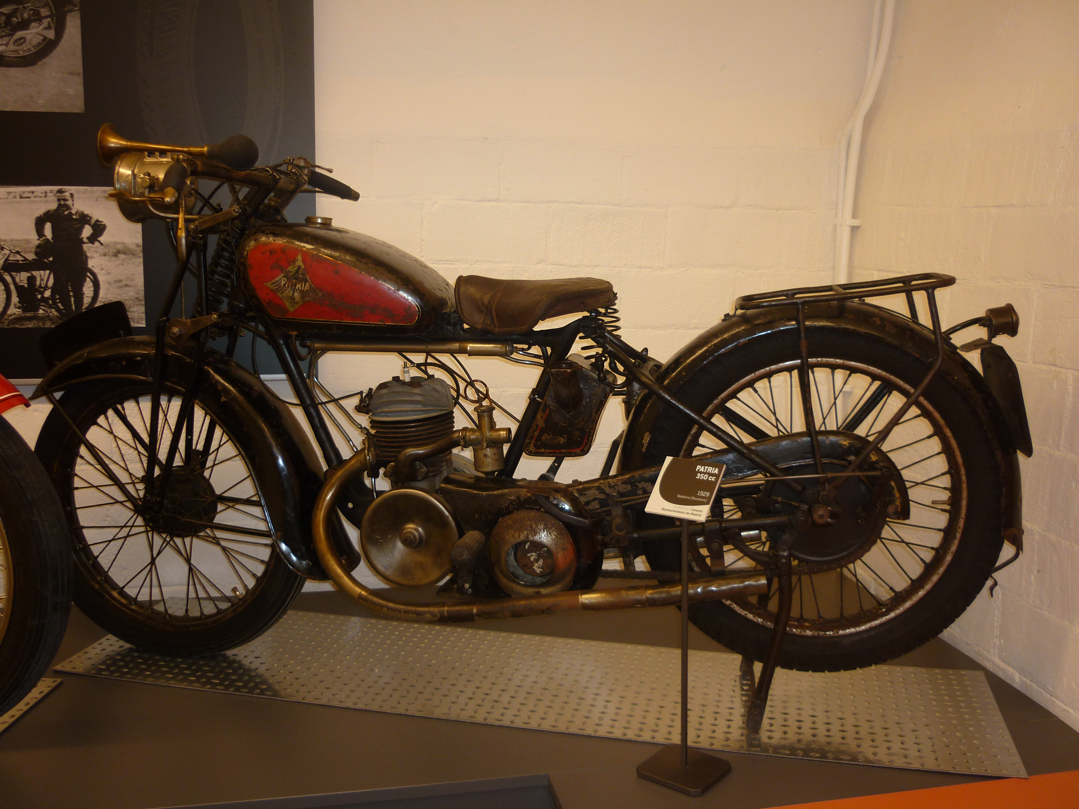 Patria 350cc (1929). Museu de la Moto de Barcelona (Catalonia).